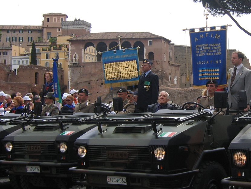 Photo of Army Parade in Rome, 2 june 2006, Festa della Repubblica Italiana. Flags of Veterans and Officers associations opening the parade